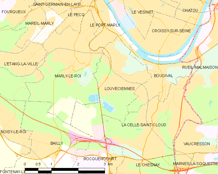 Map of French municipality Louveciennes